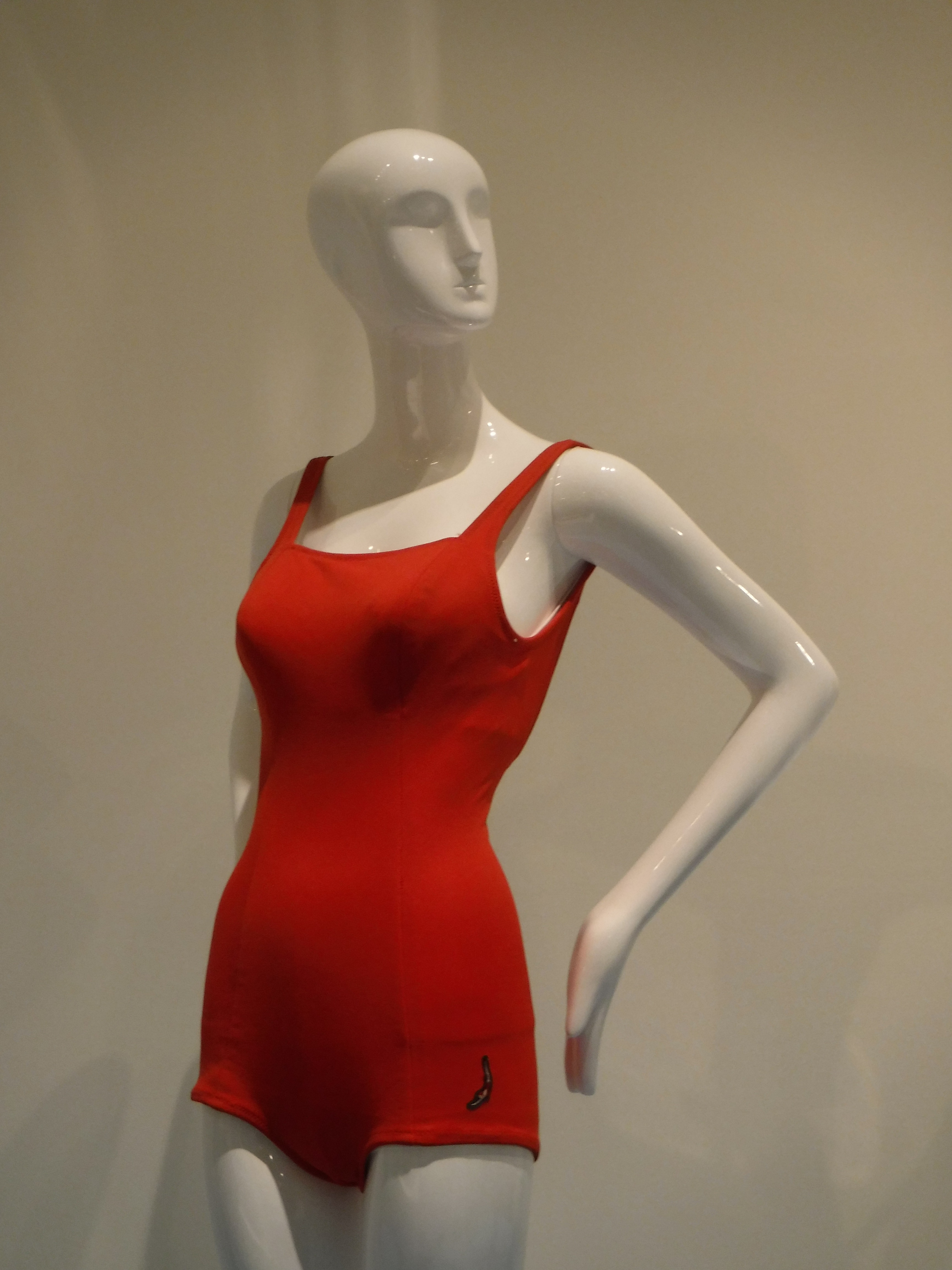 Jantzen knitted Helanca nylon bathing suit, circa 1955-1965, displayed on mannequin as part of the museum exhibition Second Skin: The Science of Stretch at the Chemical Heritage Foundation, on view from November 4, 2016 to May 13, 2017.